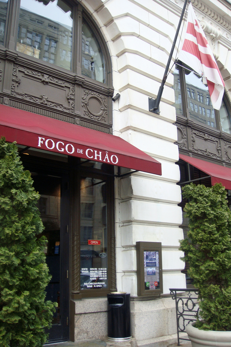 The Fogo de Chão restaurant, located in the old Evening Star building, in the Penn Quarter neighborhood of Washington, D.C.